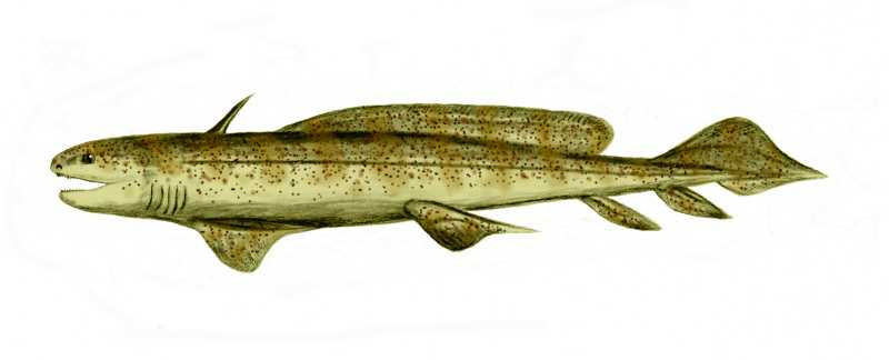 Orthacanthus seckenbergianus, pencil drawing